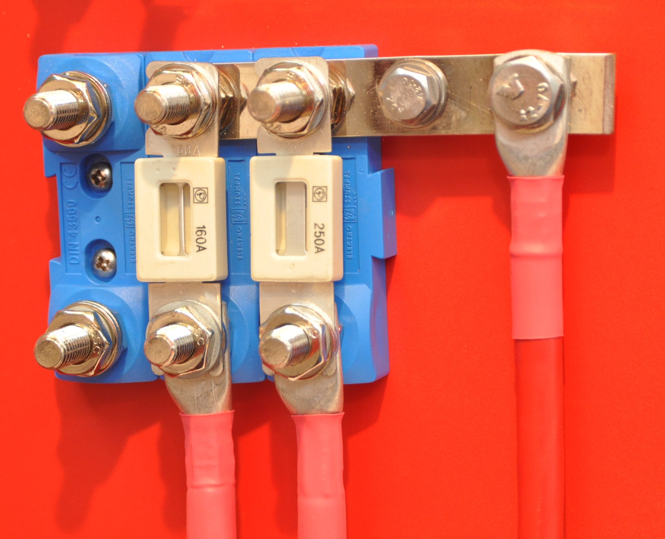 DIN 43560 Bolt-down Fuses Fuse Strips at METS 2011 RAI Amsterdam